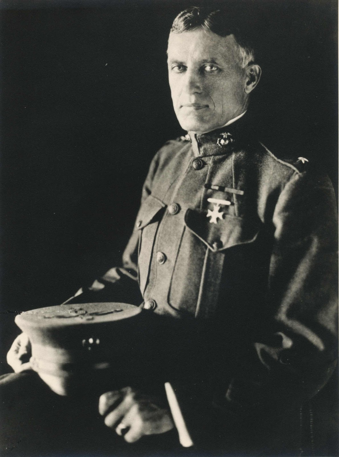 Charles Augustus Doyen (3 September 1859 – 6 October 1918) was an officer in the United States Marine Corps with the rank of Brigadier general and the first recipient of the Navy Distinguished Service Medal.